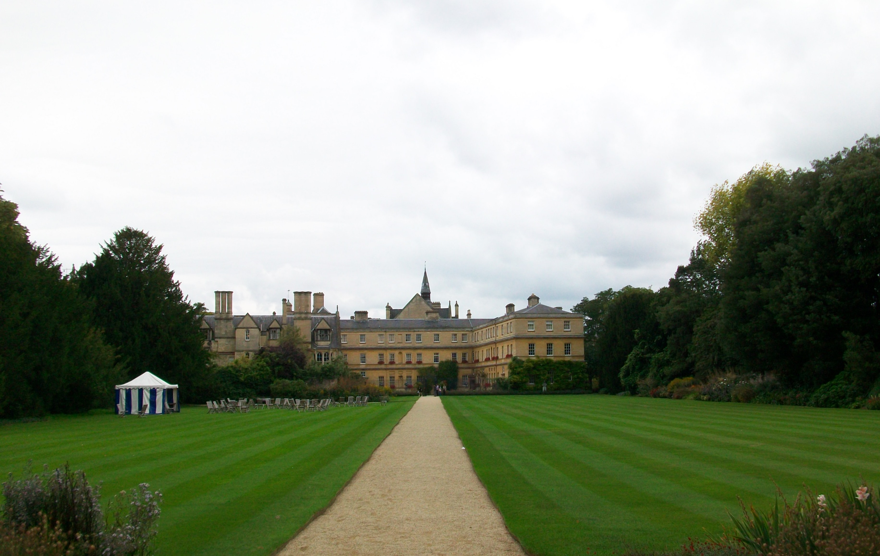 Back Lawns in Summer